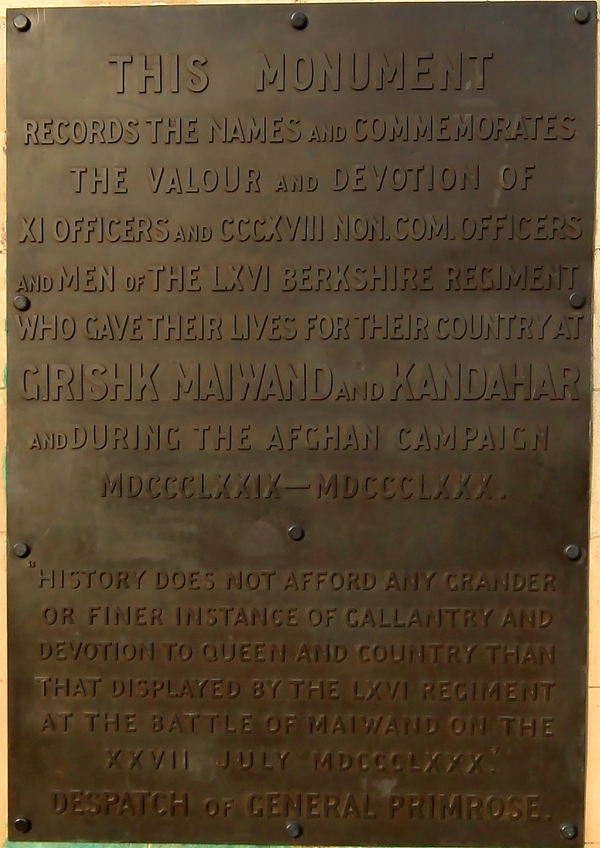 Inscription plate for the Maiwand Lion